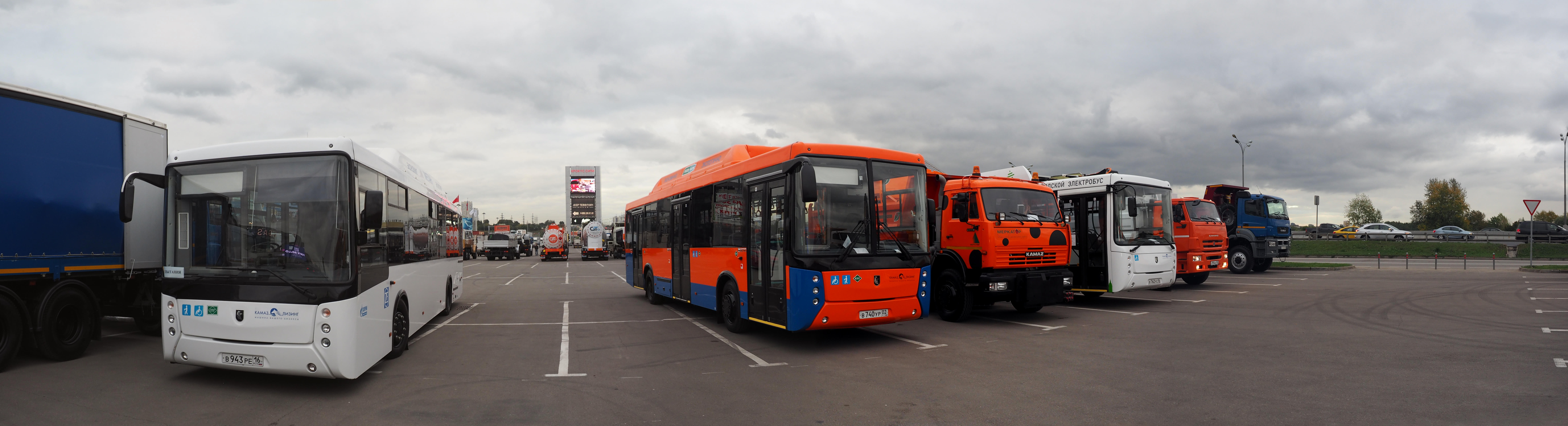 NefAZ buses and KAMAZ trucks at Comtrans 2015 in Moscow.